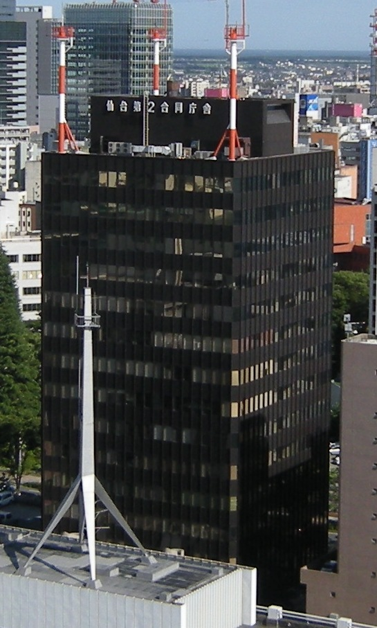 The Sendai Daini Godochosya Building. Sendai, Japan